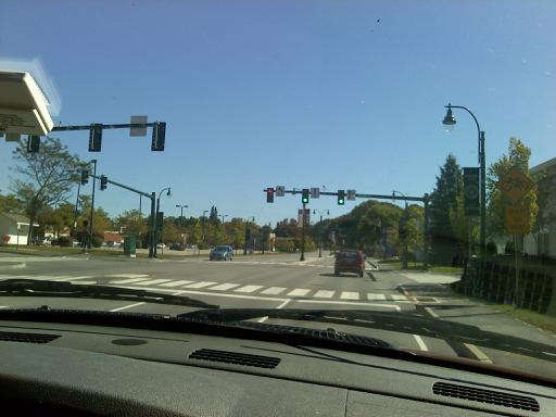 Photo of Route 25 eastbound in Westbrook, ME